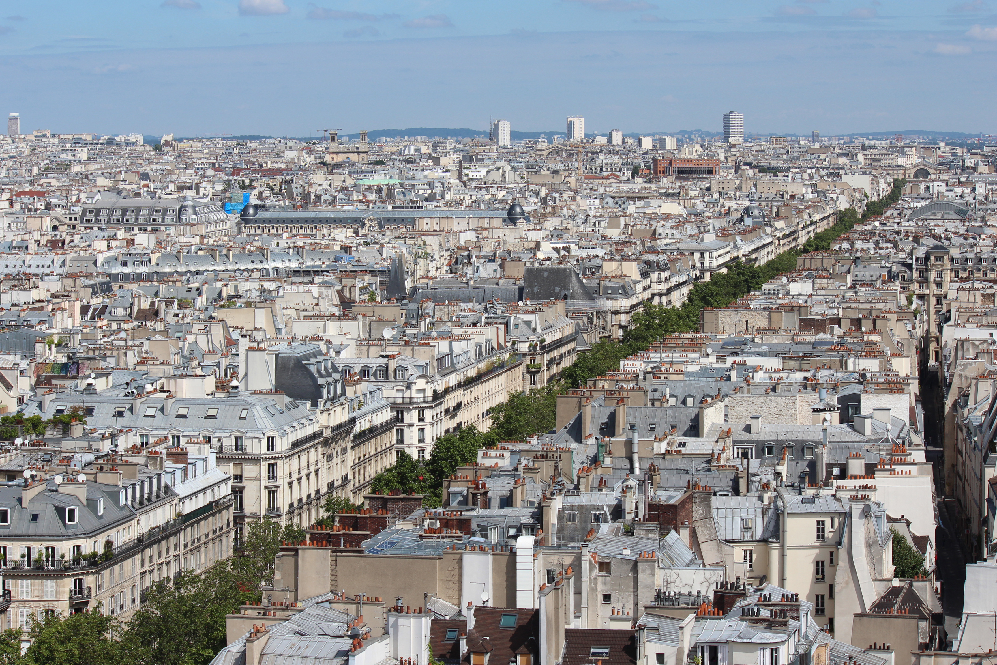 Boulevard de Sébastopol, Paris, seen from Tour St Jacques